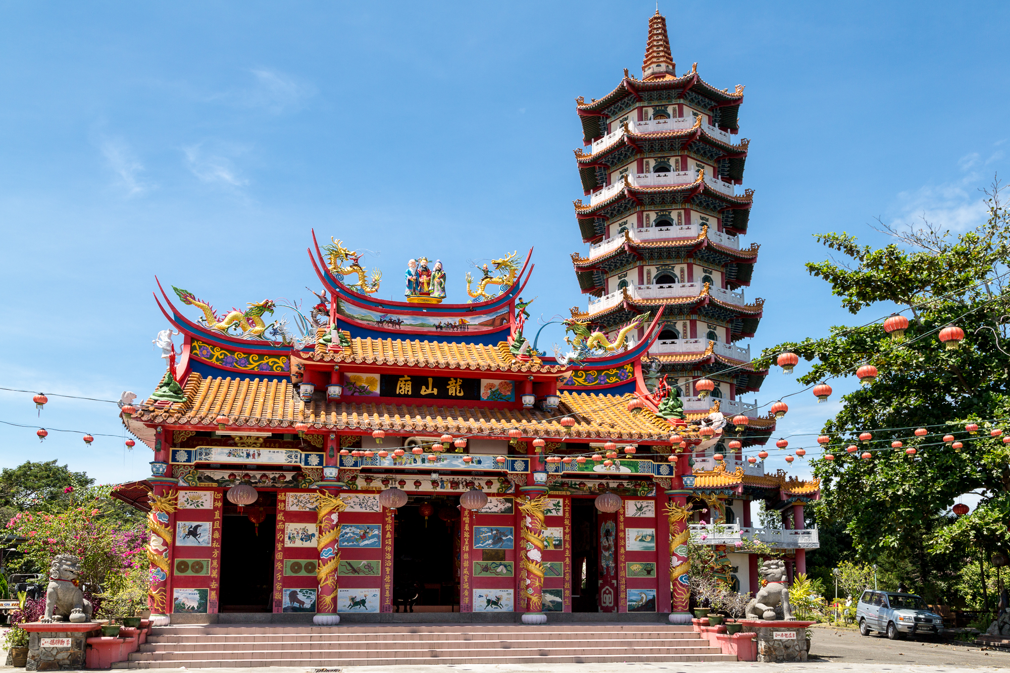 Tuaran, Sabah: Ling San pagoda, part of Ling San Temple)